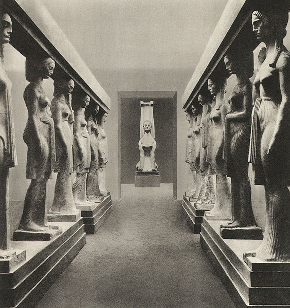 Ivan Meštrović- "Vidovdanski hram" ("Vidovdan temple")